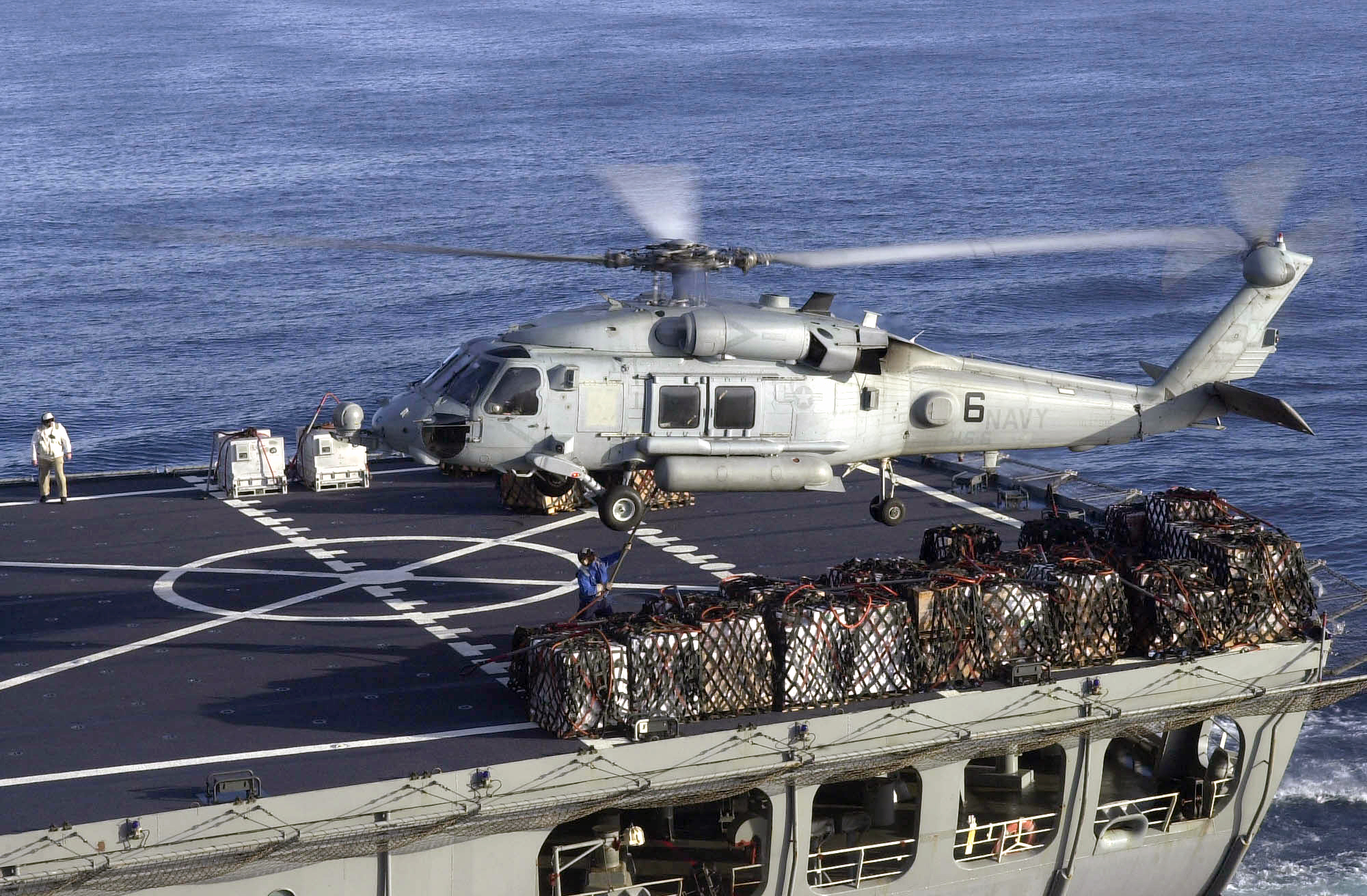 At sea aboard USS Nimitz (CVN 68) Jan 16, 2003 -- An SH-60H “Sea Hawk” assigned to the “Indians” of Helicopter Anti-submarine Squadron 6 (HS-6), transports ordnance back and forth from the Military Sealift Command ship USNS Walter S. Diehl (T-AO-193) to Nimitz during a morning vertical replenishment (VERTREP). Nimitz is currently undergoing Composite Unit Training Exercise (COMPTUEX) off the coast of San Diego. COMPTUEX is an exercise designed to train the ship, air wing and other vessels in the battle group to function as one fighting force. U.S. Navy photo by Photographer’s Mate Airman Shannon Renfroe. (RELEASED)